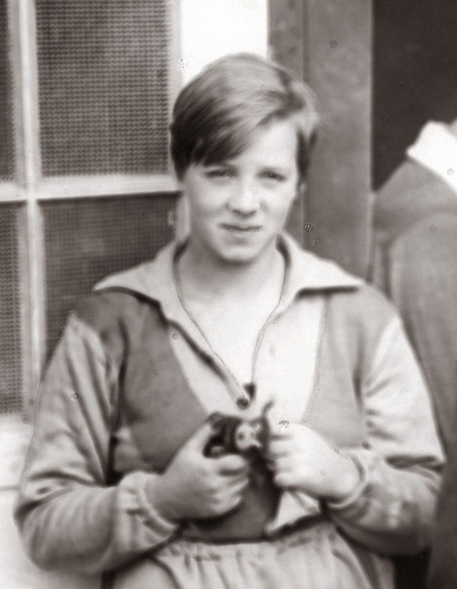 Marie Braun (1911-1982) at the 1928 Olympics in Amsterdam.